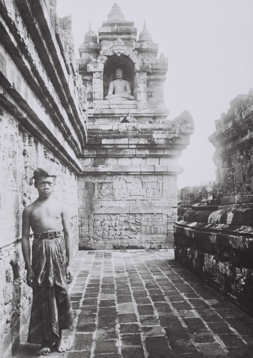 A Javanese boy standing on one of the galeries of the Borobudur